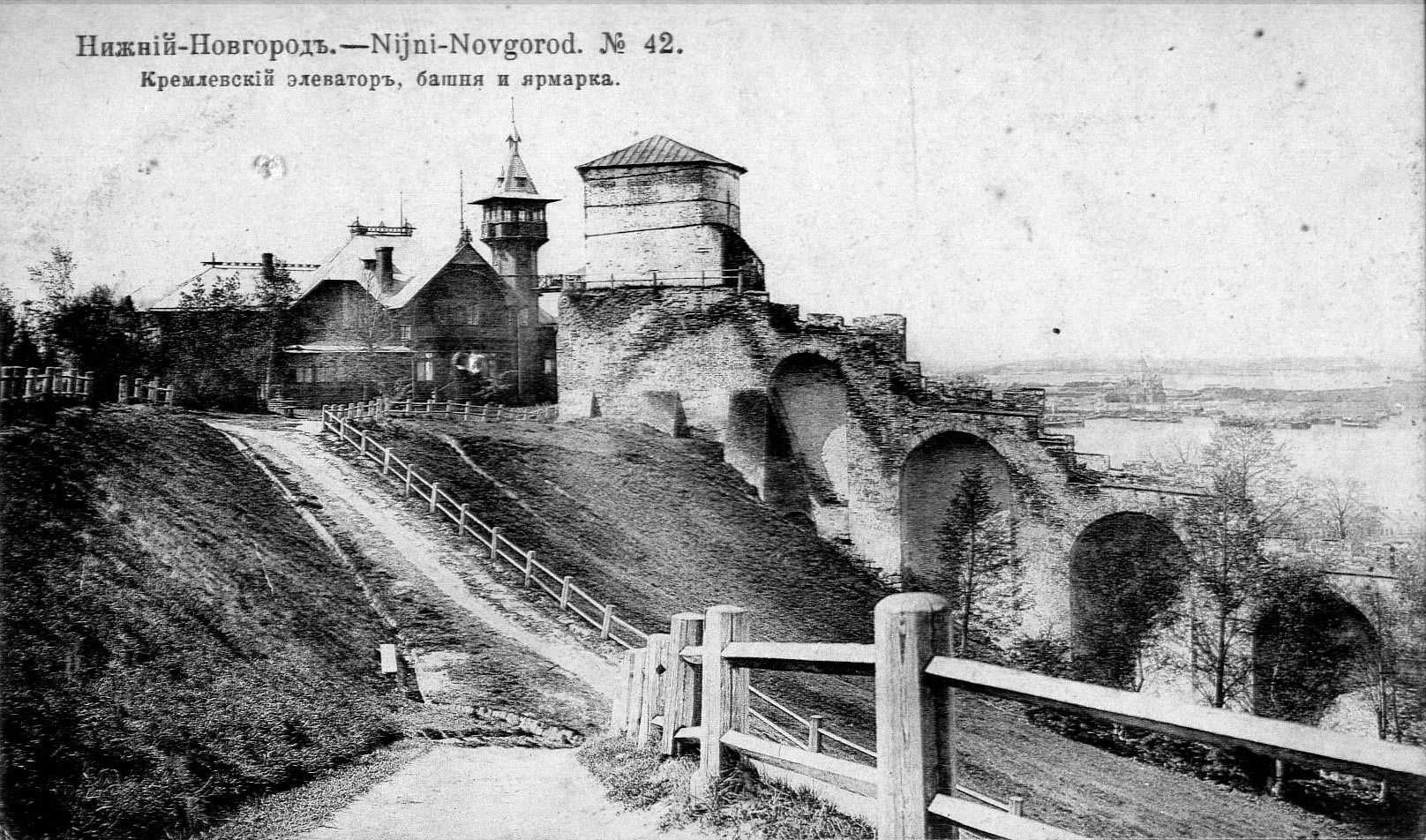 Nizhny Novgorod. Kremlin elevator, tower and fair. 1913